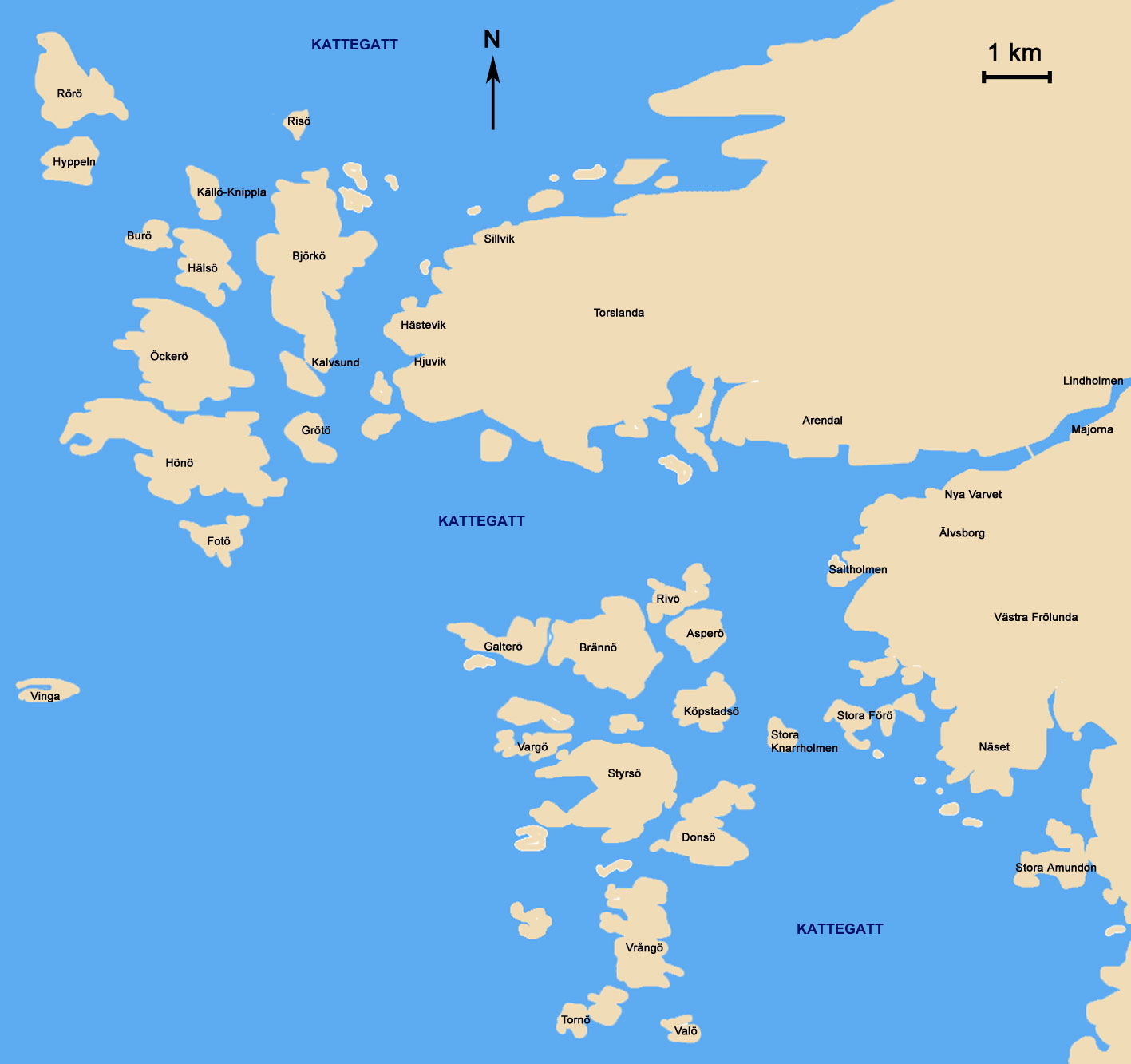 The Göteborg Archipelago